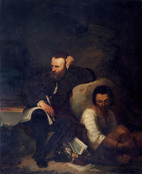 Camões in the Cave at Macau